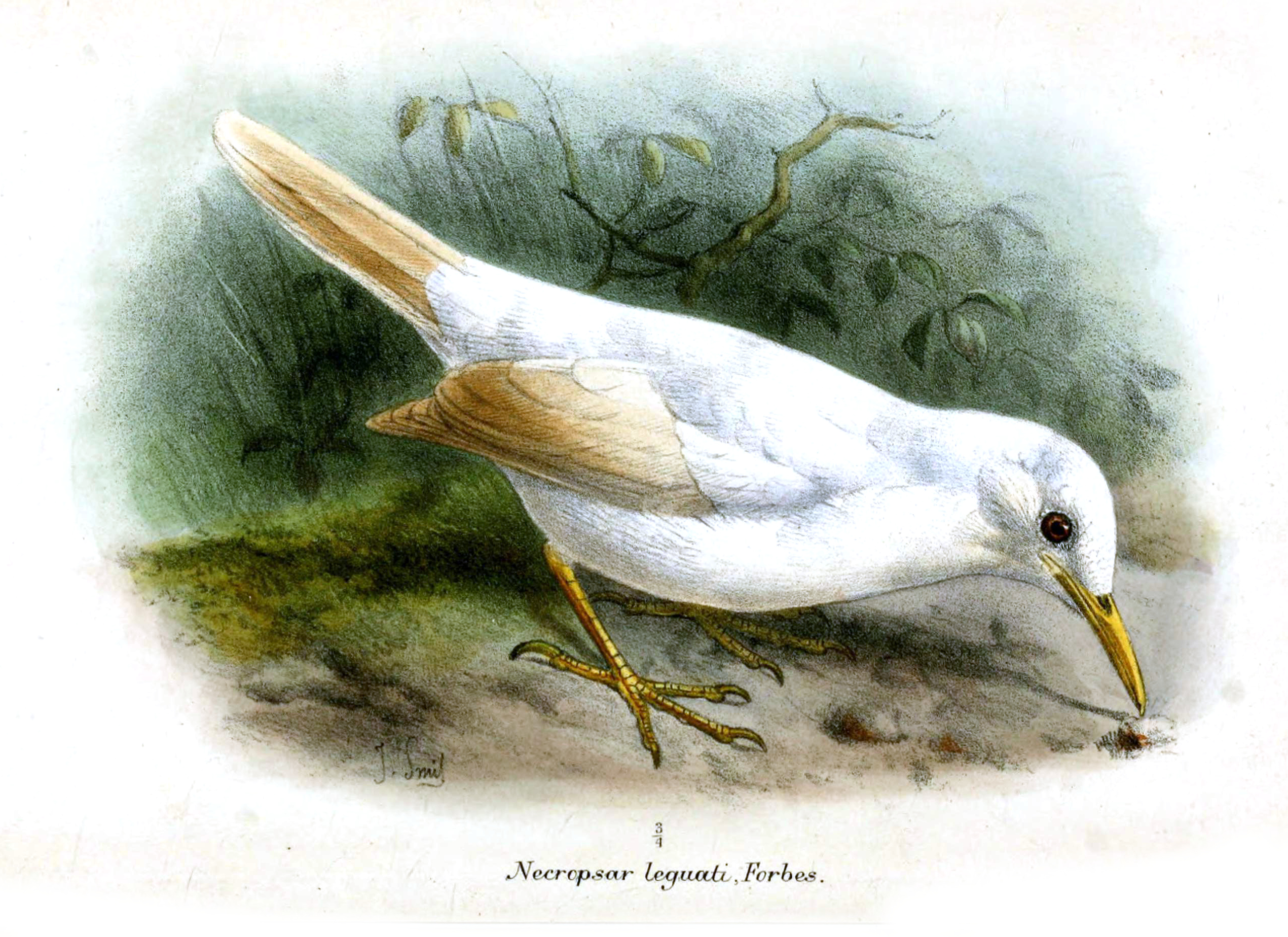 Plate I showing Leguat's starling (Necropsar leguati). This supposed "Leguat's Starling" (Necropsar leguati) was eventually determined to be a mislabeled albino specimen of the Martinique Trembler (Cinclocerthia gutturalis), a mimid.